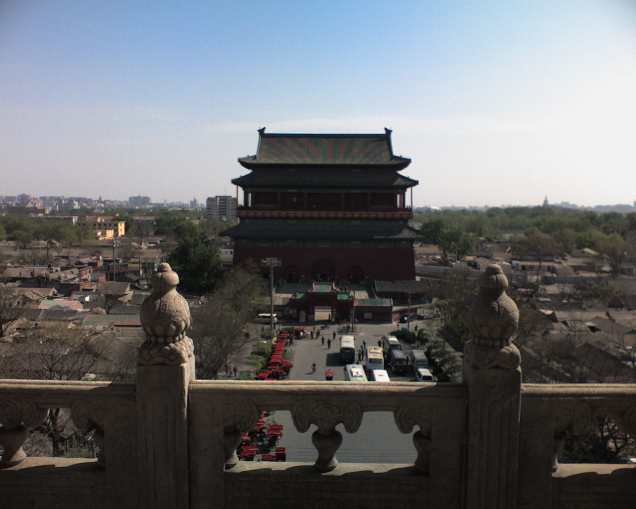 View of Beijing's Drum tower from the Bell tower. Photo taken by David Balch in April 2005.